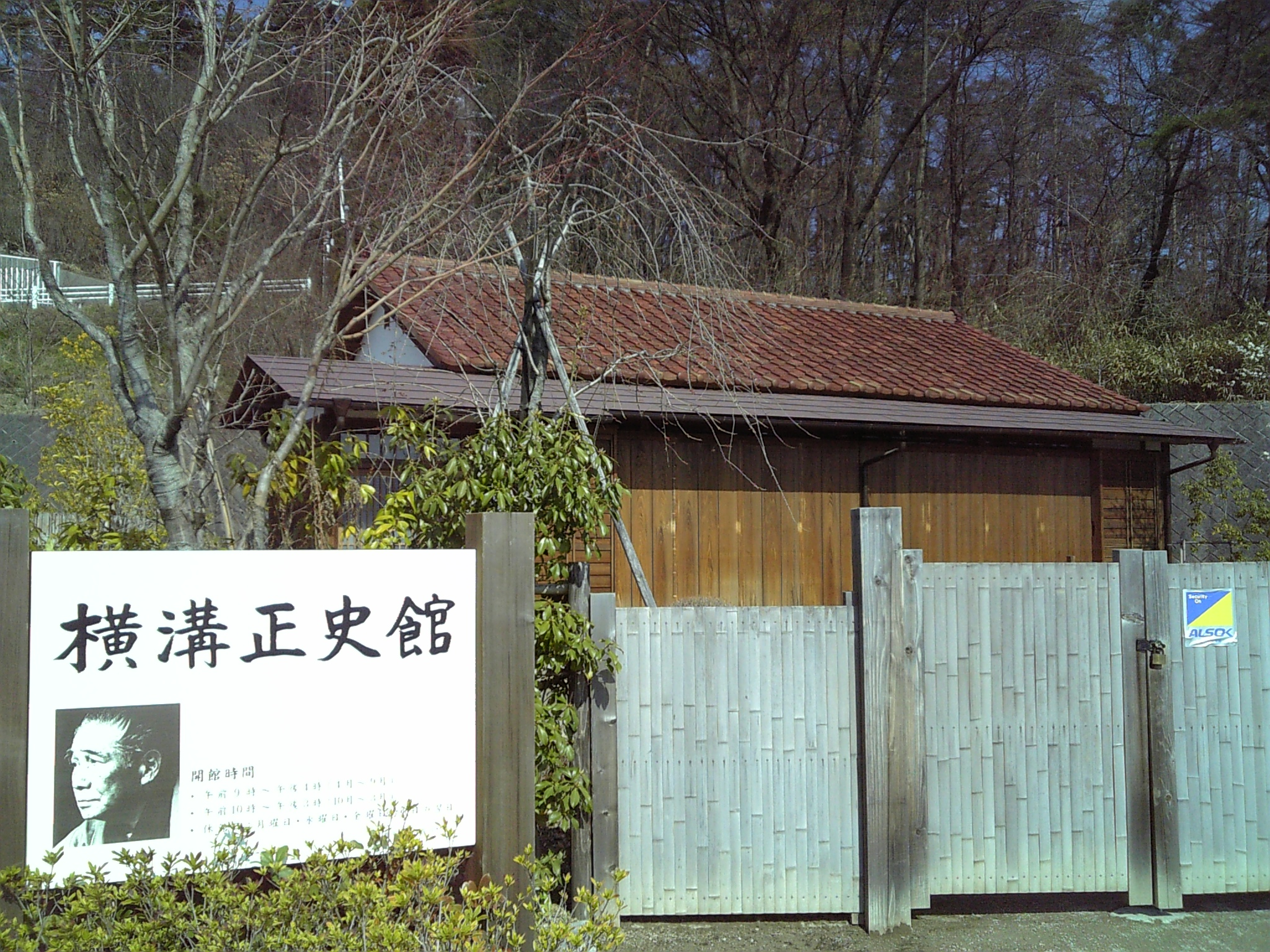 The writing house of a famous Japanese detective novelist Yokomizo Seishi